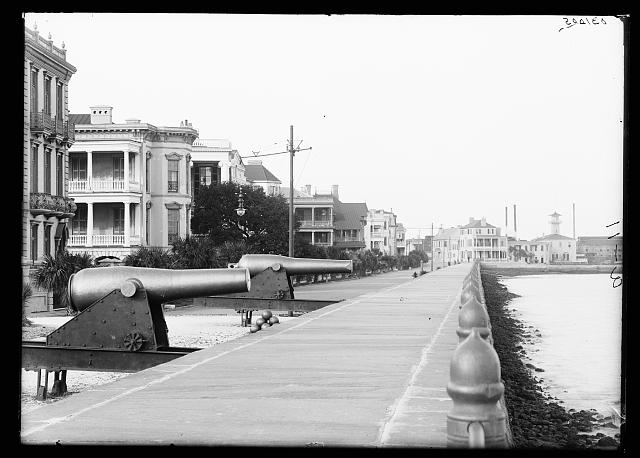 East Battery, Charleston, South Carolina. Recovered gun from USS Keokuk in rear of photograph.